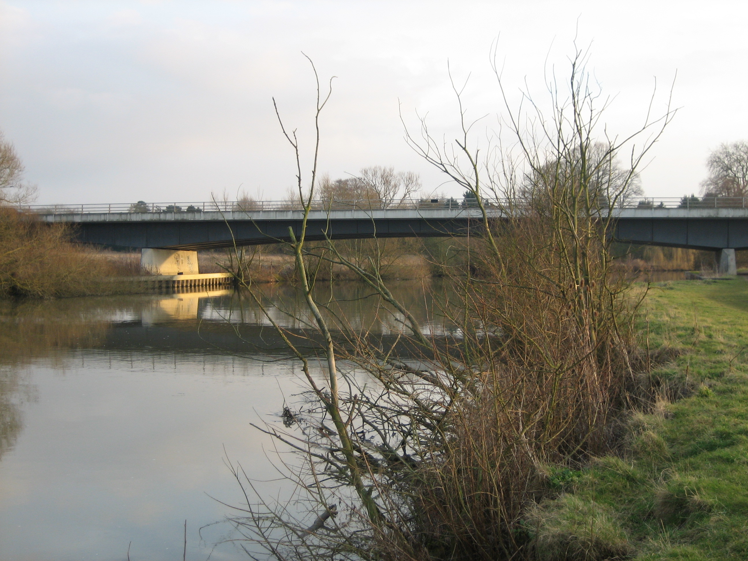 creatd by David Hemming (page author)